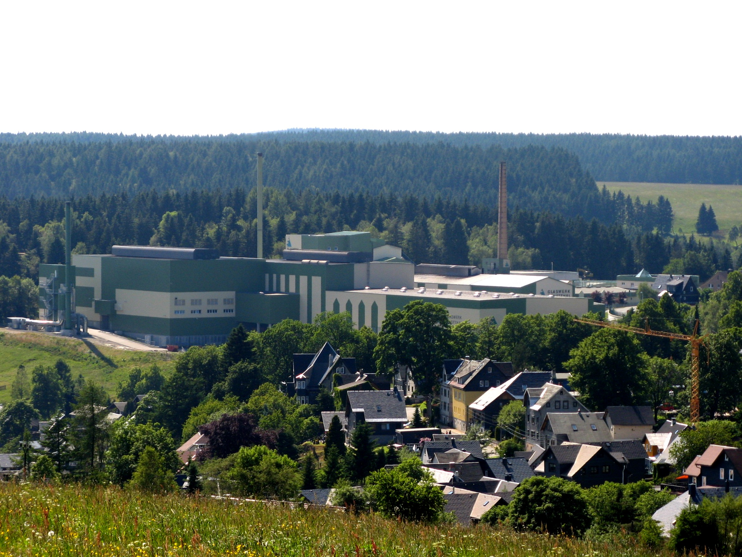 Glaswerk Ernstthal - Ernstthal, Thuringia, Germany